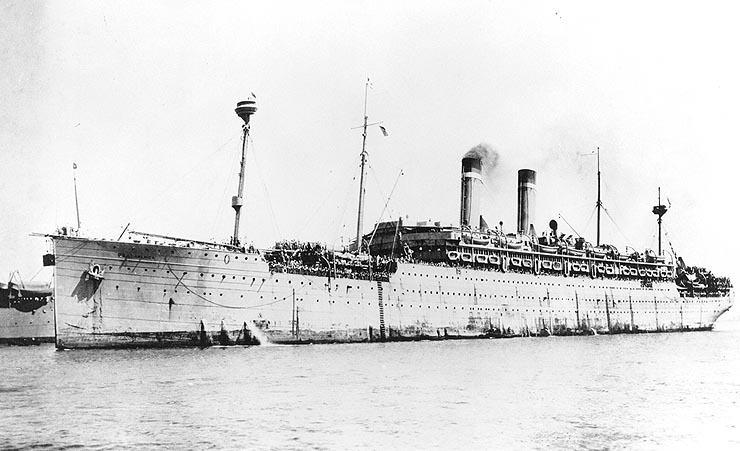 USAT America (U.S. Army Transport). Completed as the German passenger liner SS Amerika in 1905, she was USS America (ID # 3006) in 1917-1919.